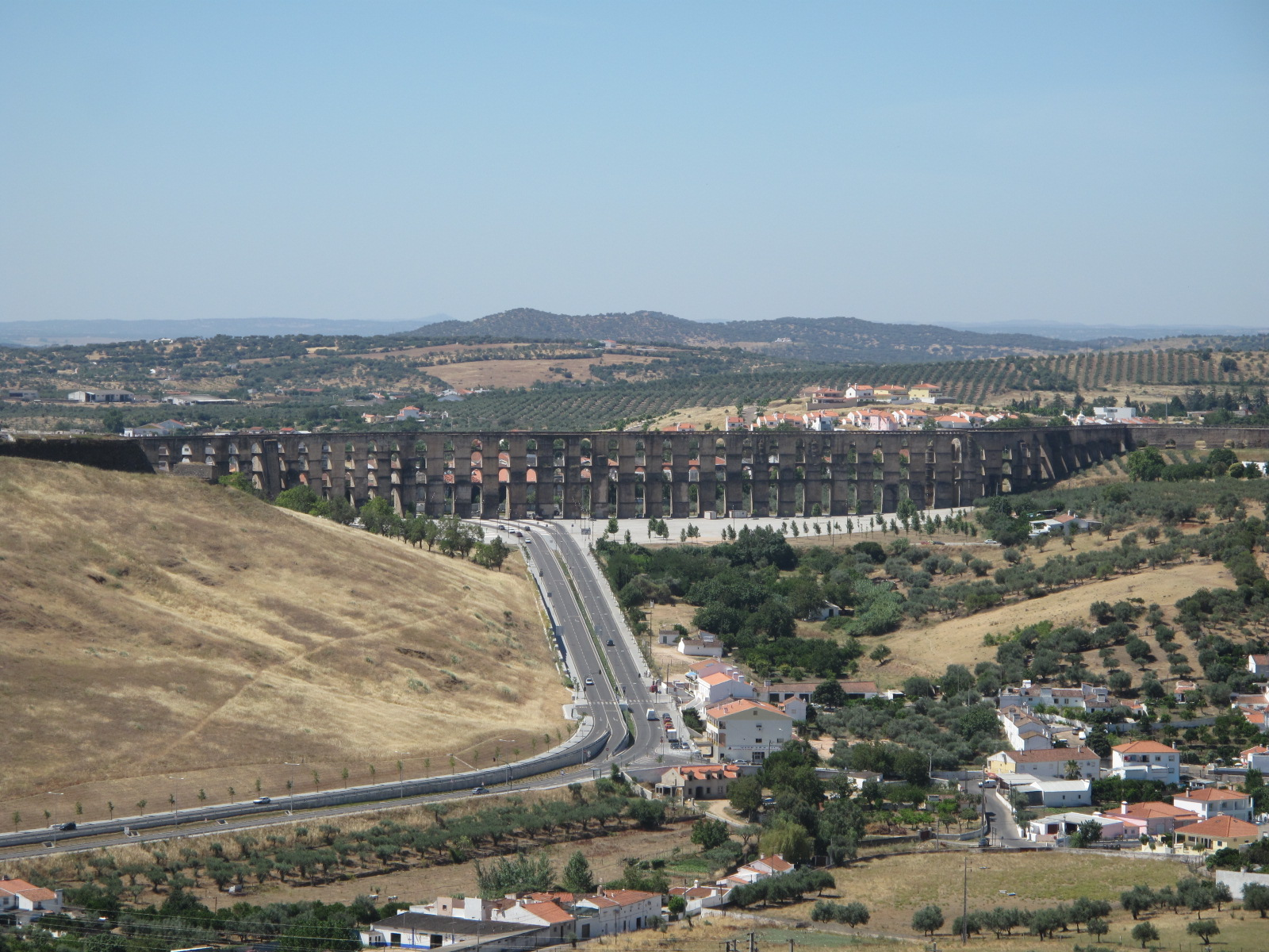 This file was uploaded for Wiki Loves Monuments in Portugal with the unique identifier 70195.